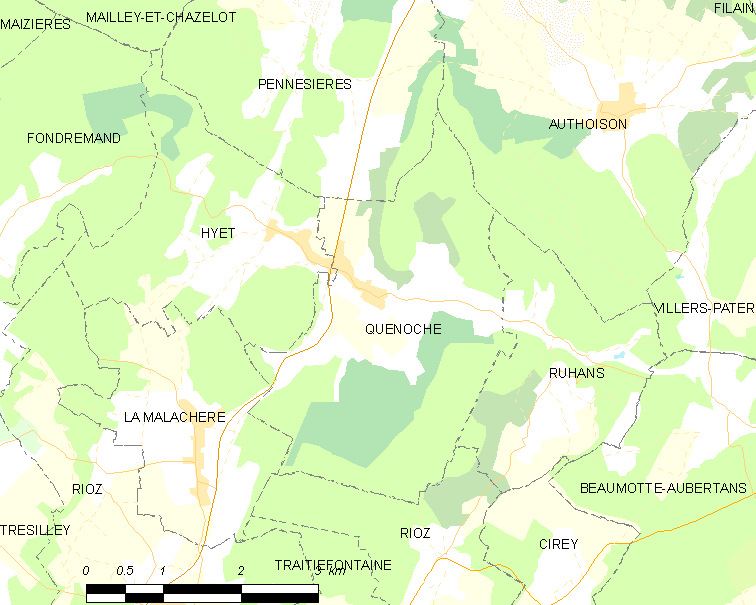 Map of French municipality